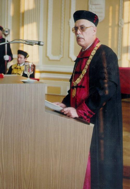 András Róna-Tas is rector of the University of Szeged, 14.02.1991.